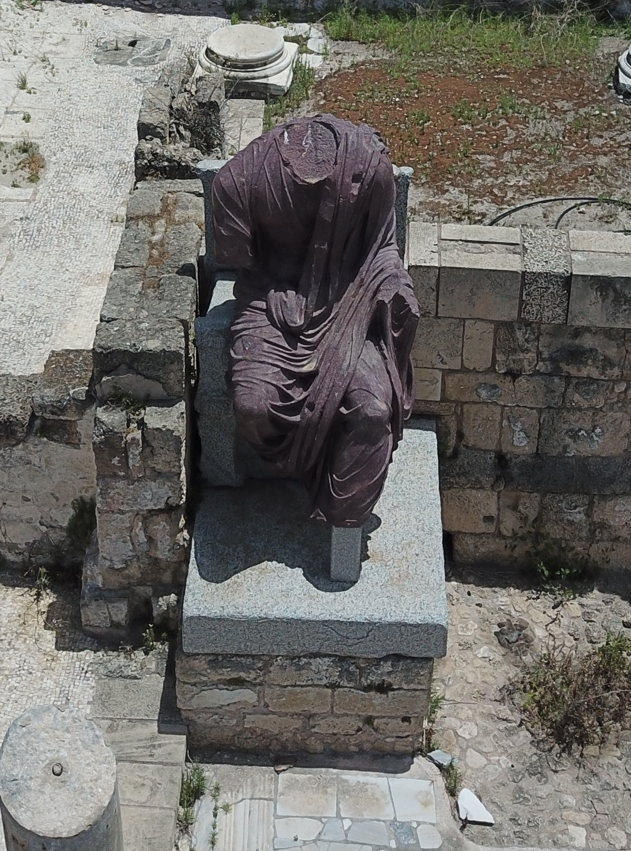 Red Granite Statue of Caesar Hadrian from Caesarea. dated to ca. 130